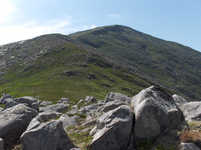 East ridge of Beinn nan Aighenan. Looking up to the summit.